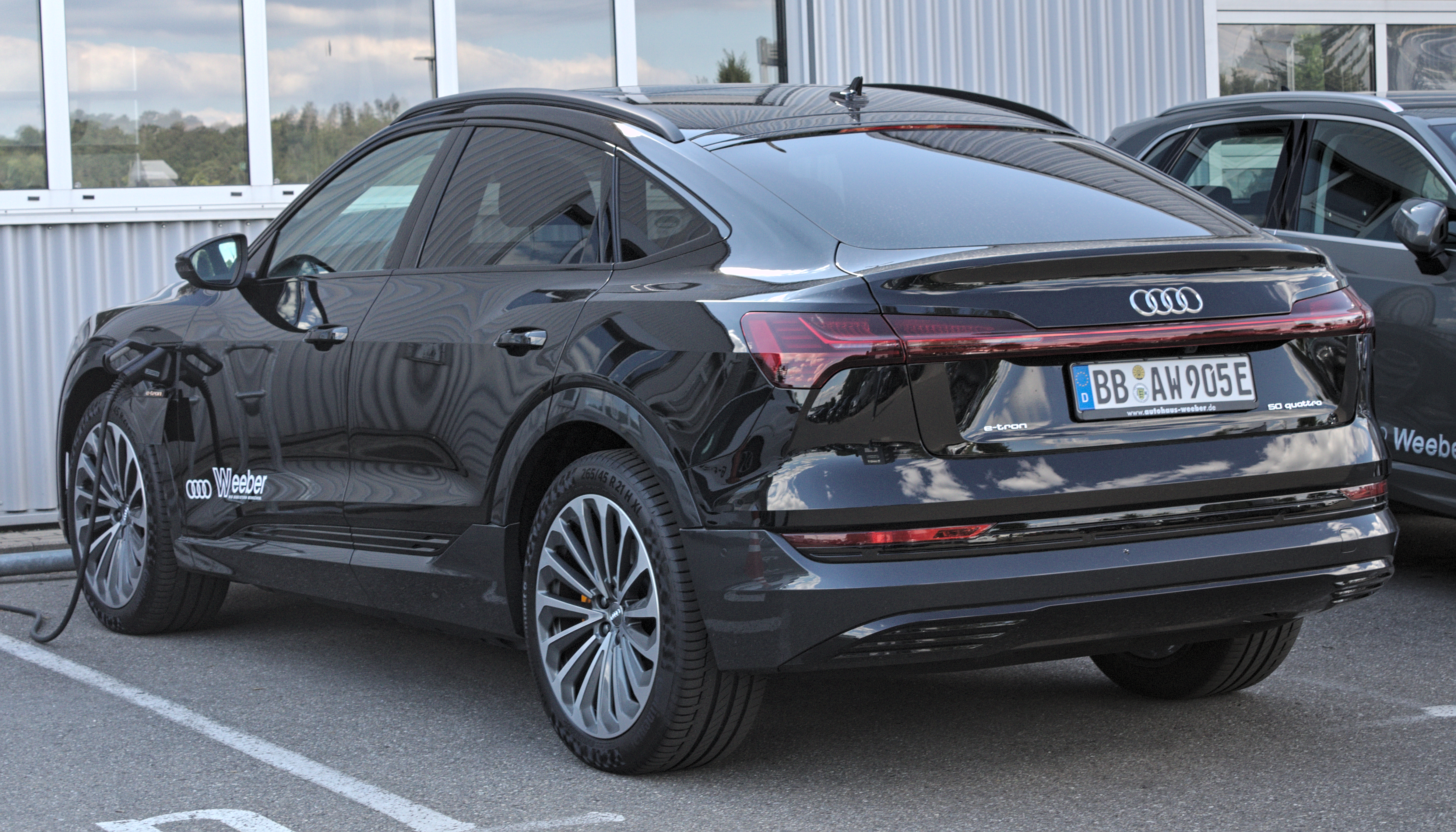 Audi_e-tron_Sportback in Herrenberg